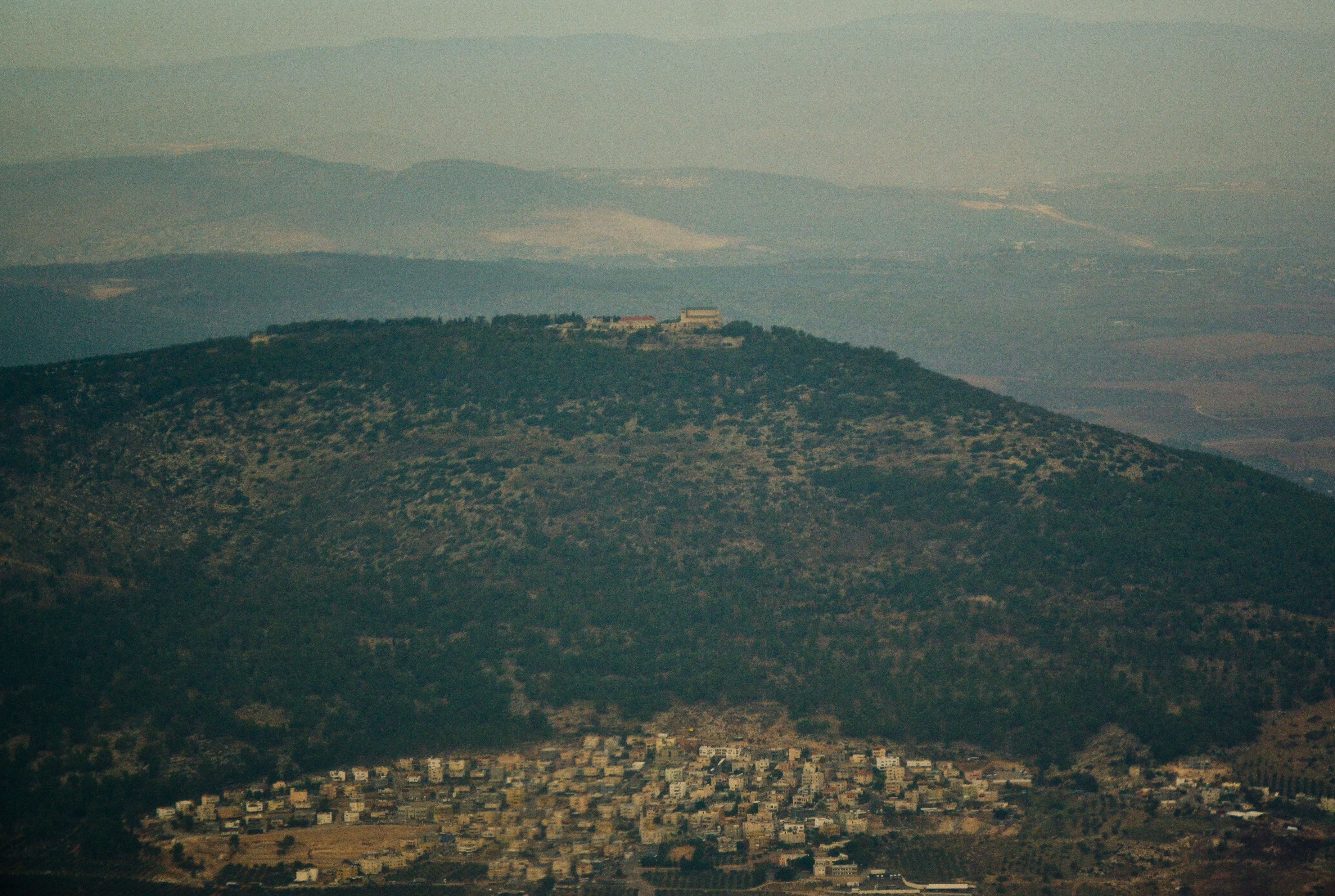 Shot taken from plane flown by Ilan Maytal